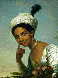 Portrait of Dido Elizabeth Belle Lindsay (1761-1804)